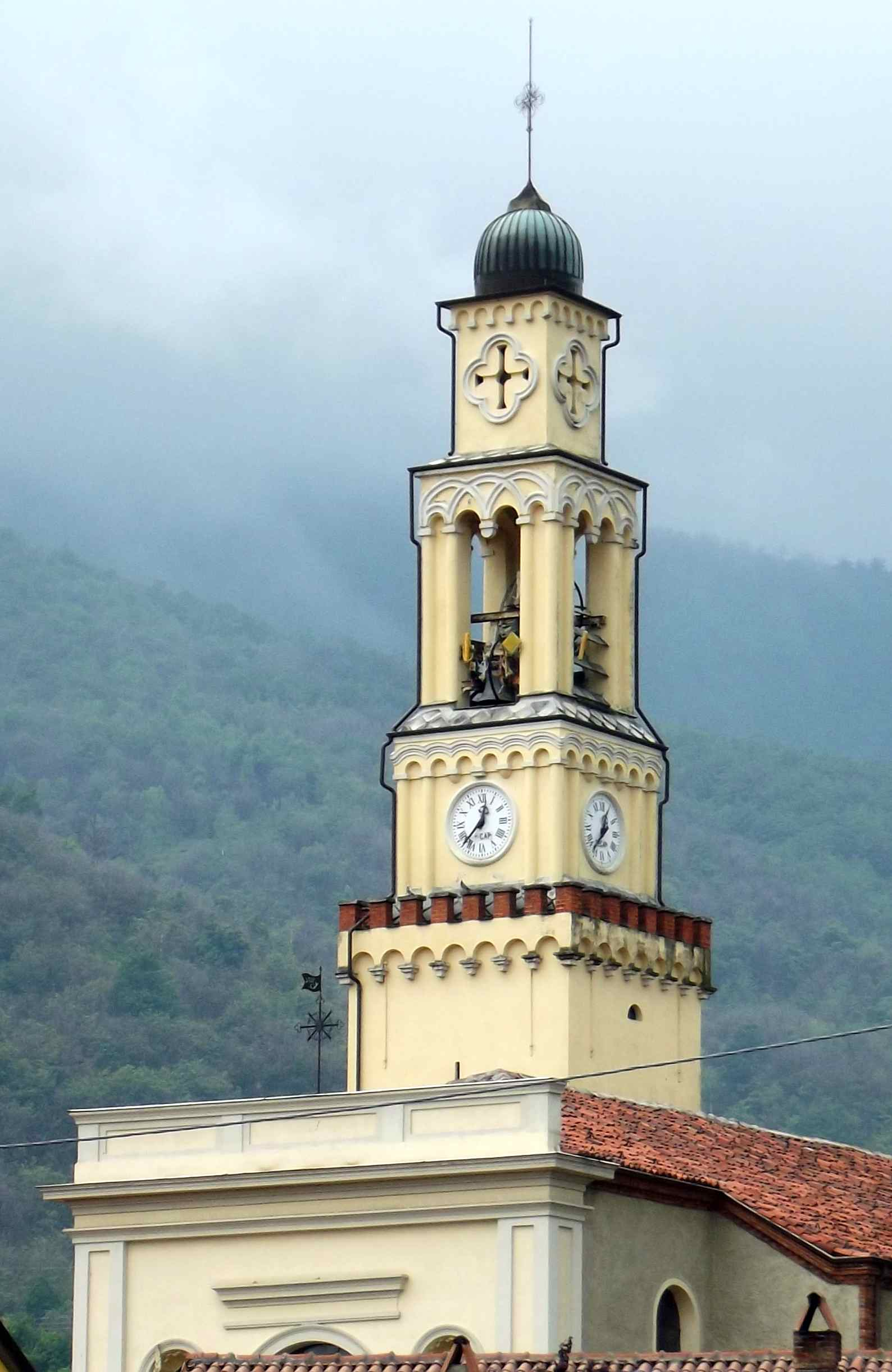 La Cassa (TO, Italy): church tower, formerly belonging to the local castle